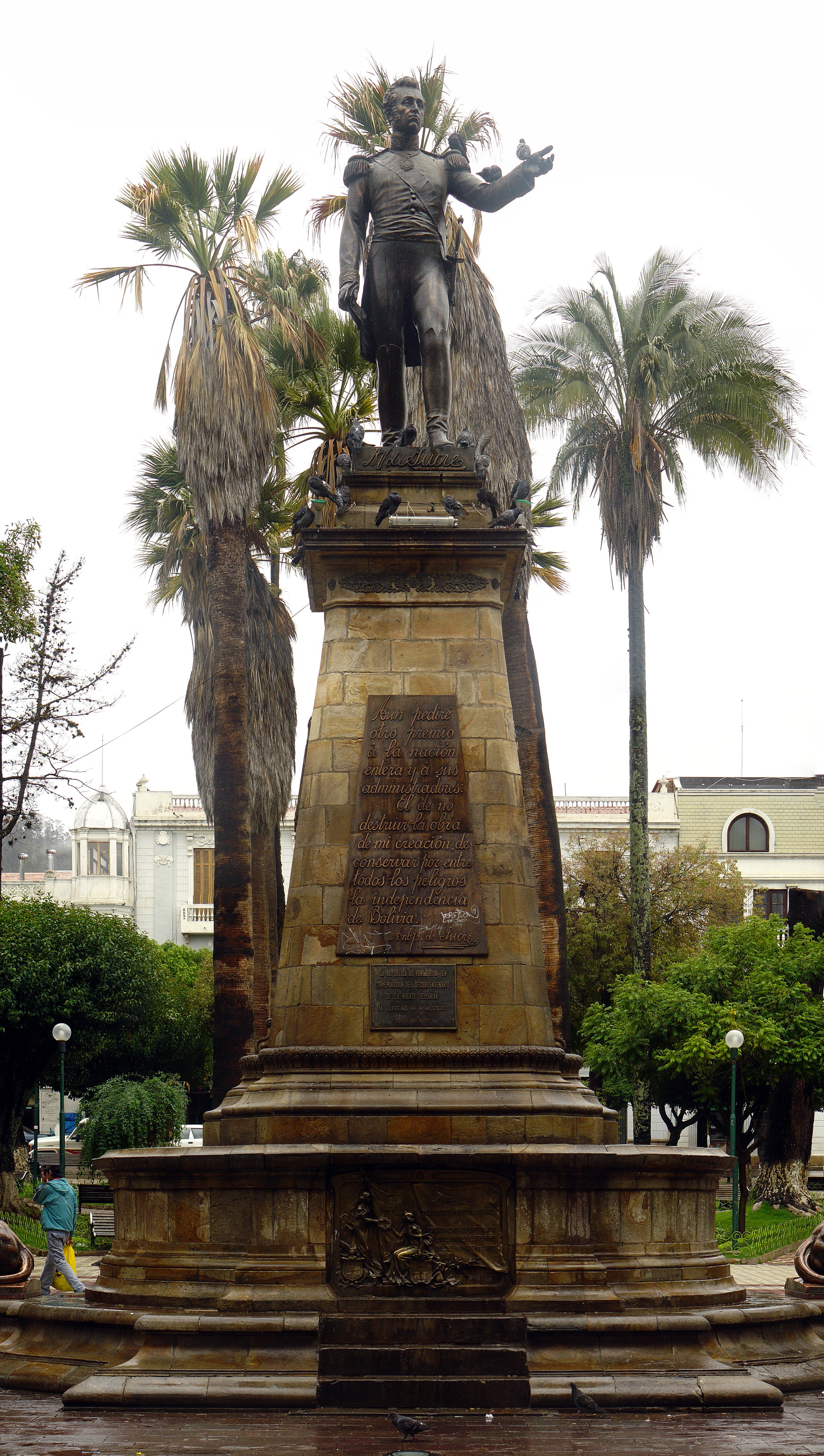 Please, have this description accessible to all by translating it in different languages.